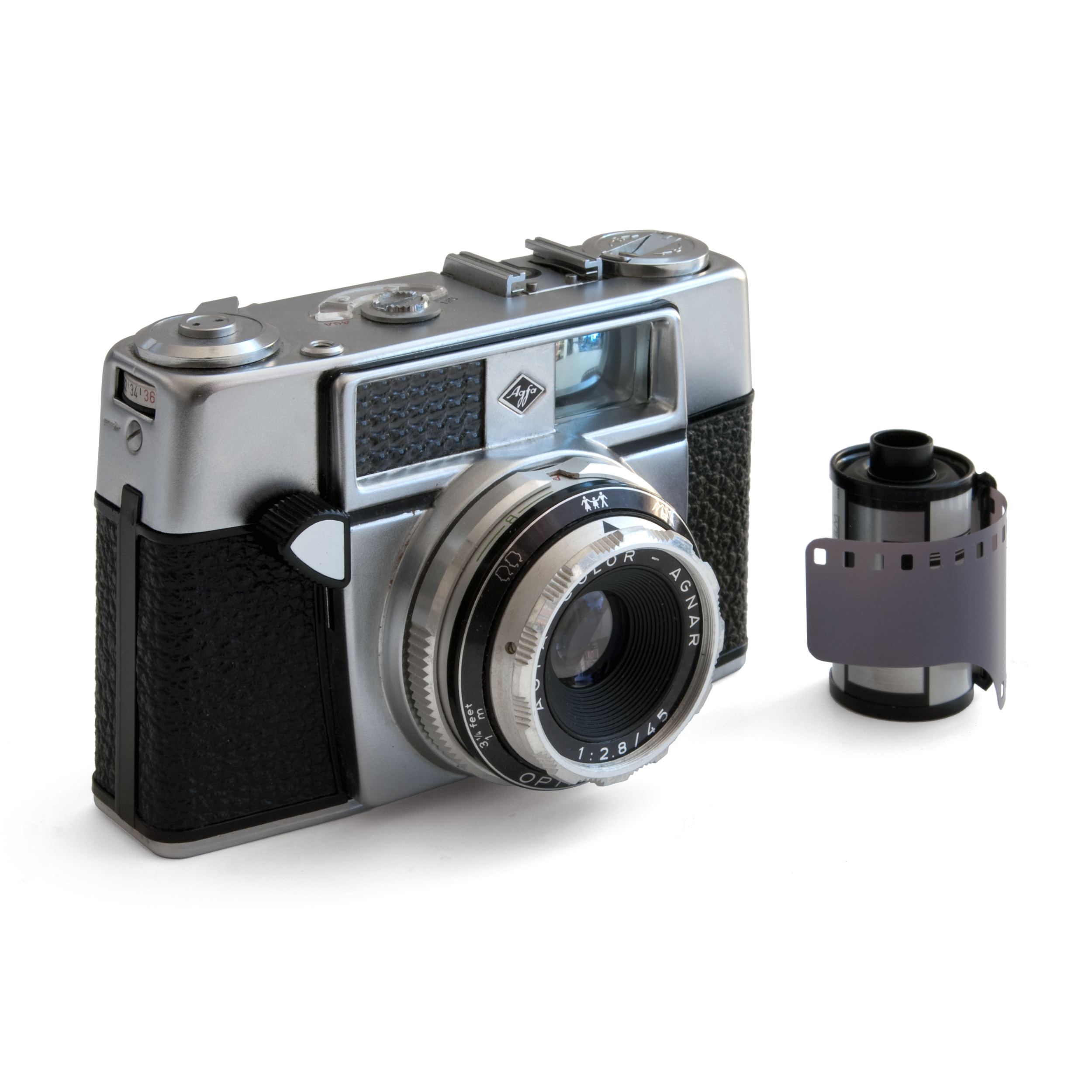 First produced in 1962, the Agfa Optima 1a camera features automatic exposure via the selenium meter.